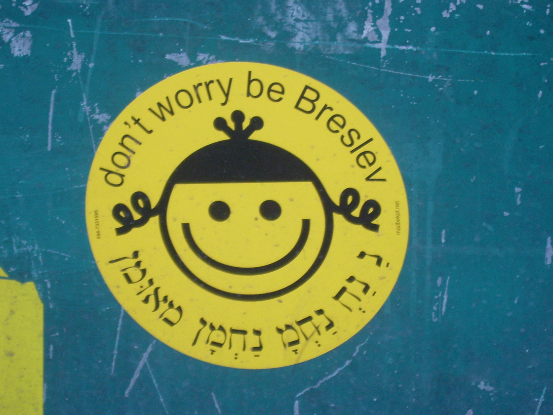 Don't Worry, Be Breslev